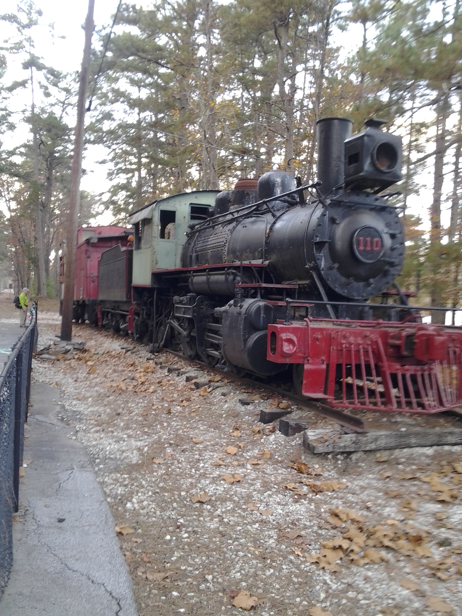 McRae Lumber & Manufacturing 2-6-2 locomotive, later Stone Mountain Railroad #110 "Yonah II" displayed at Stone Mountain Memorial Depot.